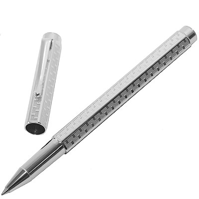 Caran d'Ache Ecridor rollerball pen